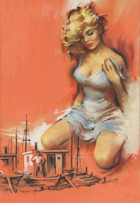 "Scowtown Woman" by George Ziel, Book cover ACE D-428.